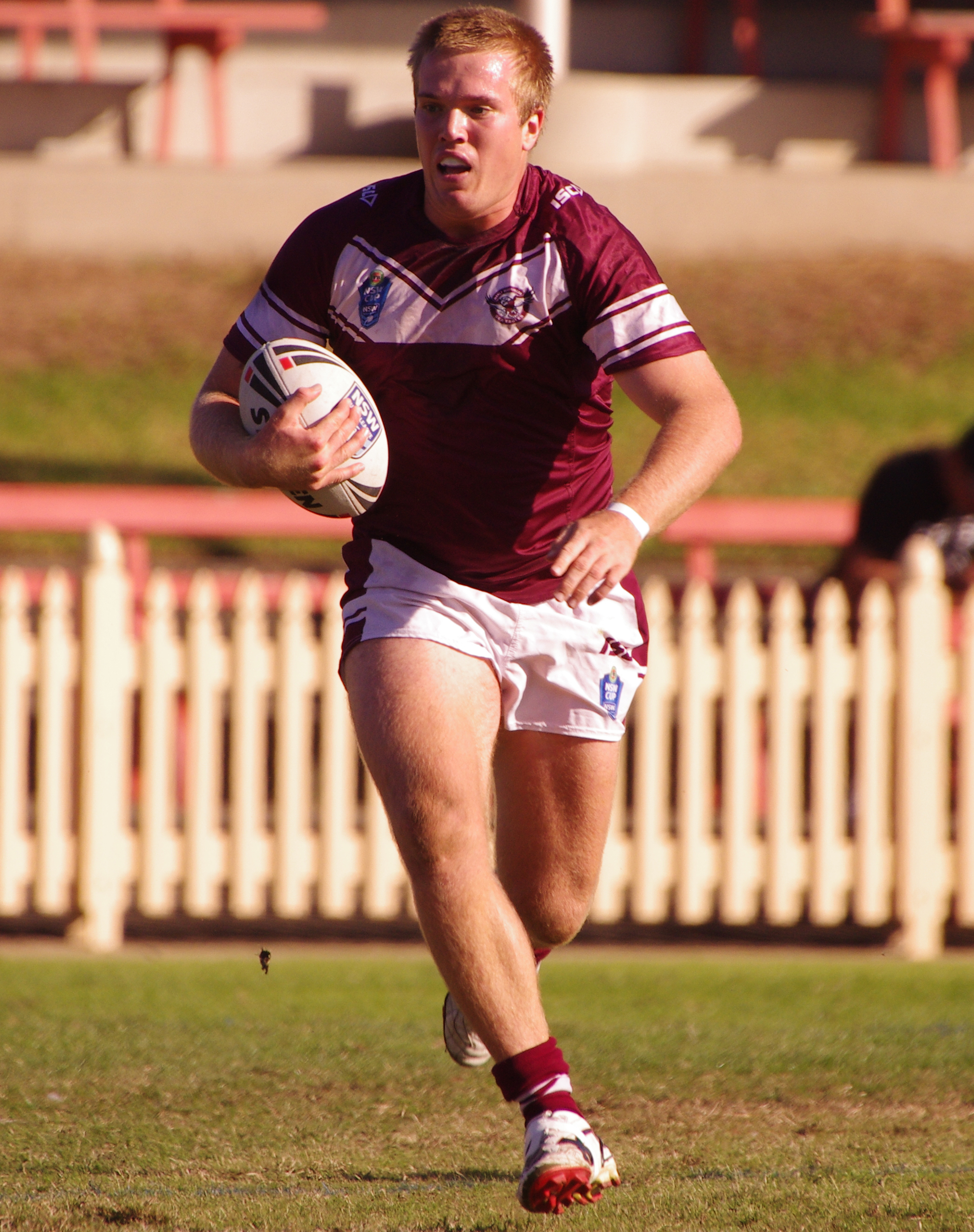 Jake Trbojevic